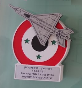 Shimshon Rozen MIG 21 shot down, located in 119 squadron, Ramon IAF base